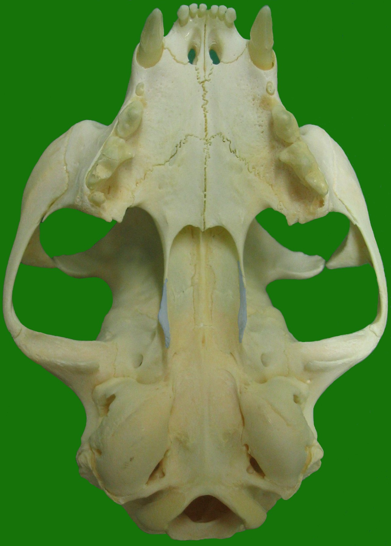 Skull base of a cat, Pterygoid bone marked blue own photograph Uwe Gille 3 July 2005 12:56 (UTC)